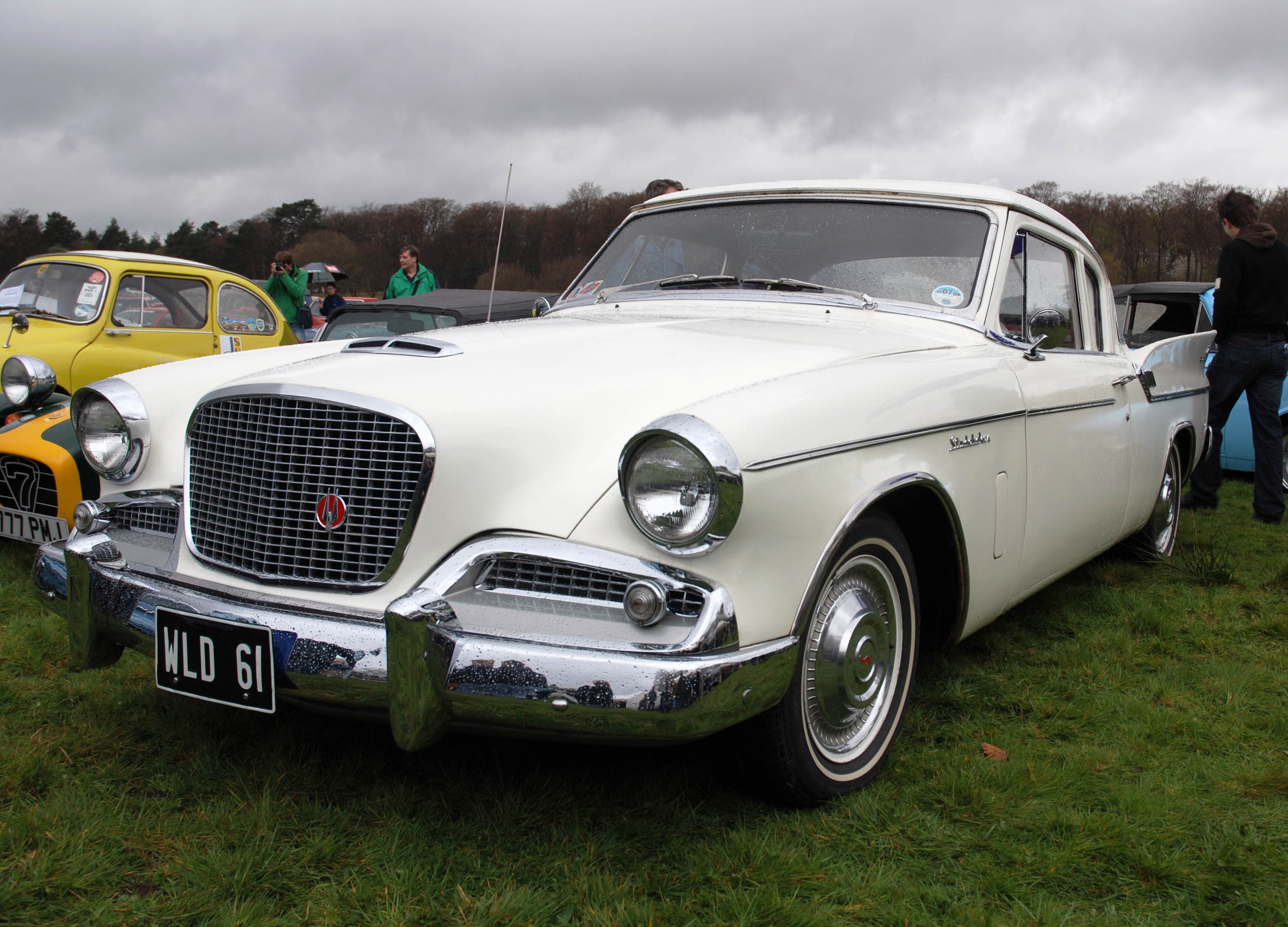 1960 Studebaker Hawk at Wheels Day, Apr 2009. 4248cc (259 ci) engine, which was only available in export models then as US models only had the 289 V8 in 1960 and 1961.